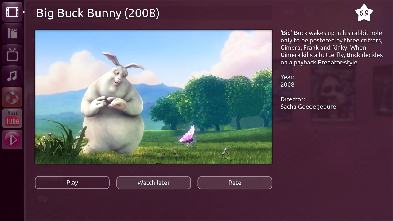 Ubuntu TV, running a modified version of Ubuntu